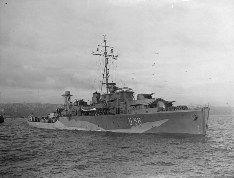 Photograph of British Black Swan class sloop HMS Cygnet.